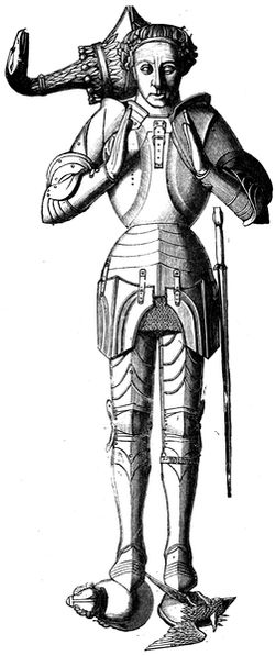 Effigy of Richard de Beauchamp, 13th Earl of Warwick (1382–1439) in the Beauchamp Chapel of the Collegiate church of St Mary, Warwick, England